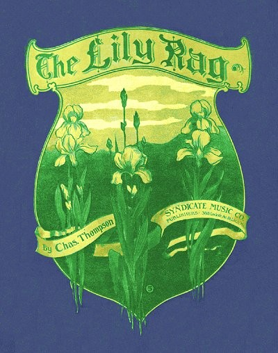 The Lily Rag, 1914